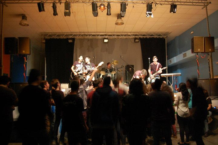 BMP La Nave